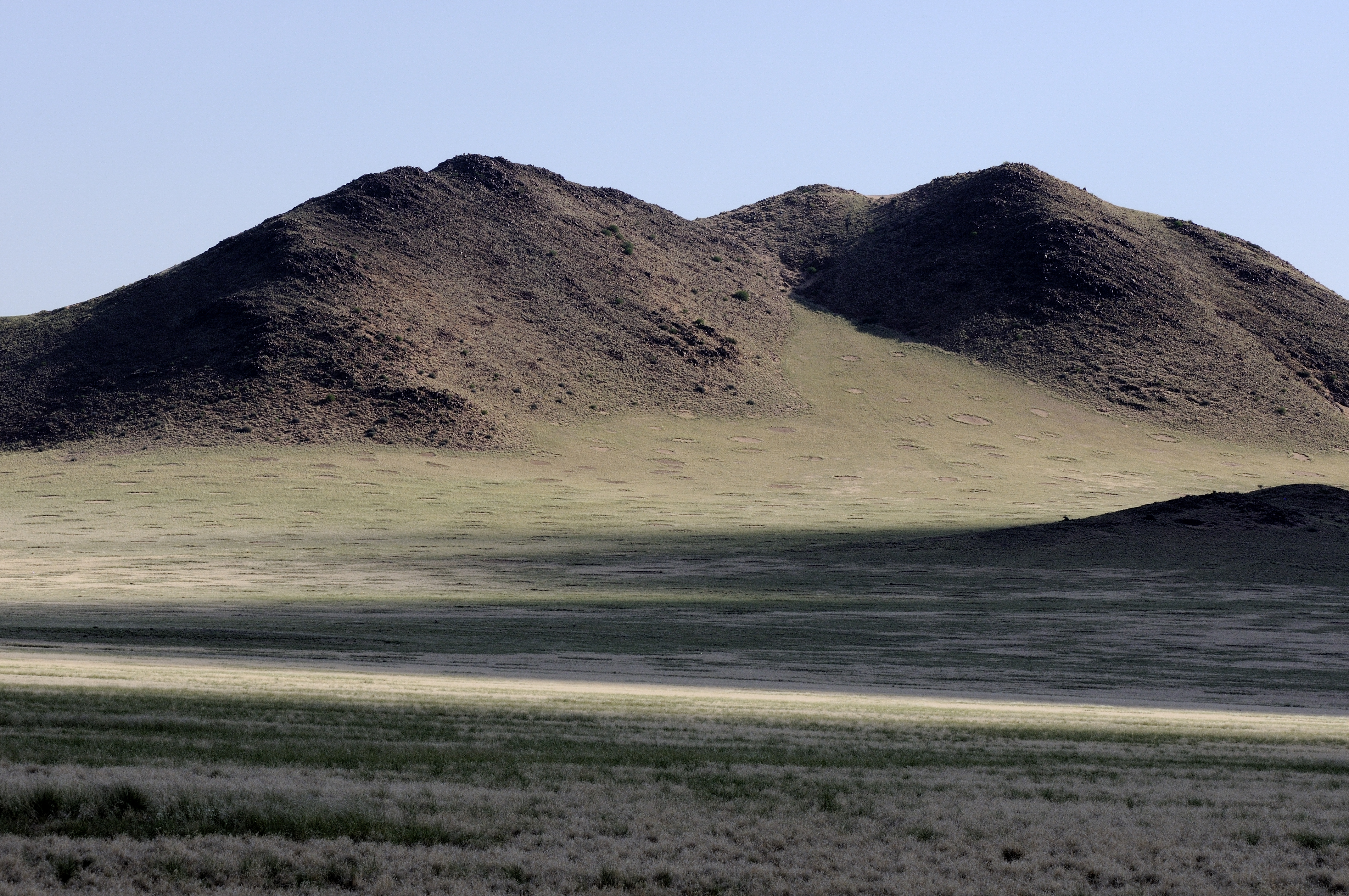 Fairy circles, Namib Naukluft/Namibia